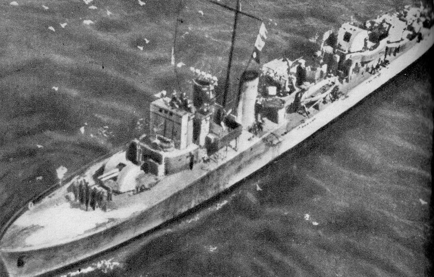 ORP "Kujawiak", Polish destroyer of World War II